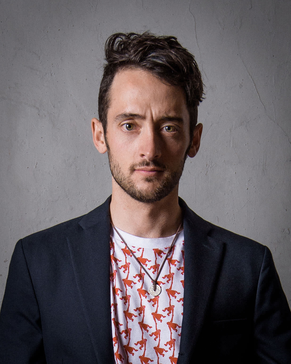 Nathan Haas Pro Cyclist Pictured here at the Qhubeka Charity Gala in Girona 2016